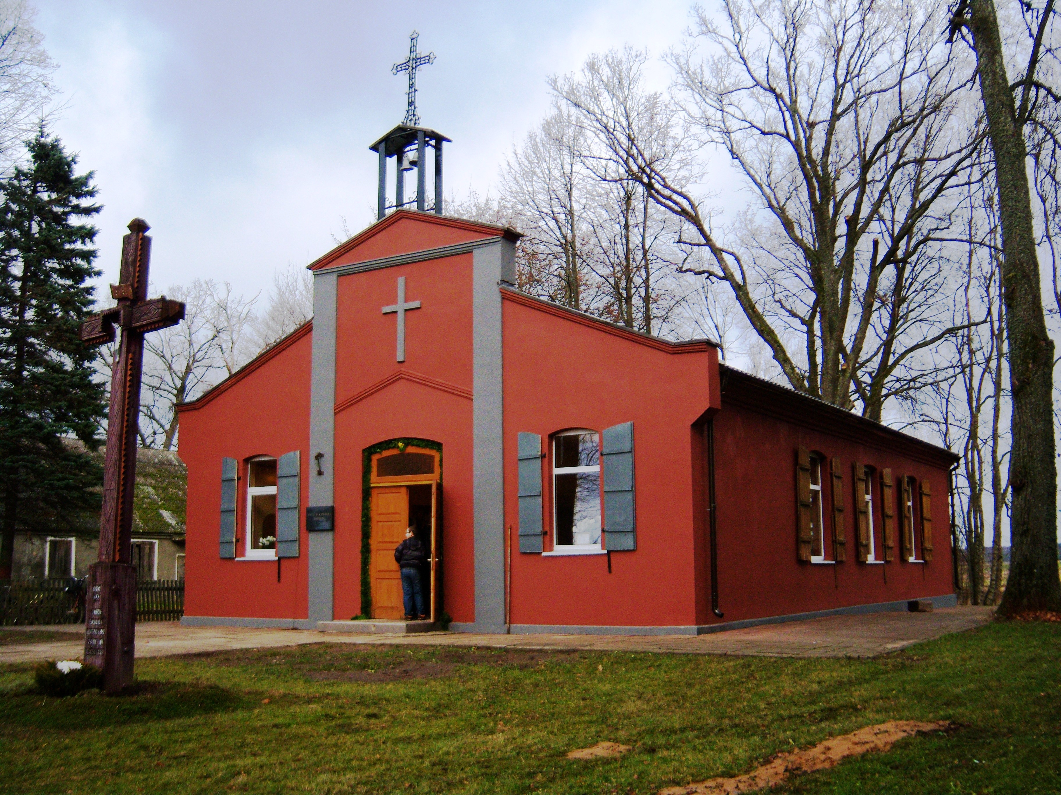 Roman Catholic Church in Saugos, Šilutė District, Lithuania